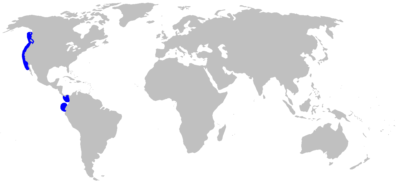 Distribution map for Apristurus brunneus